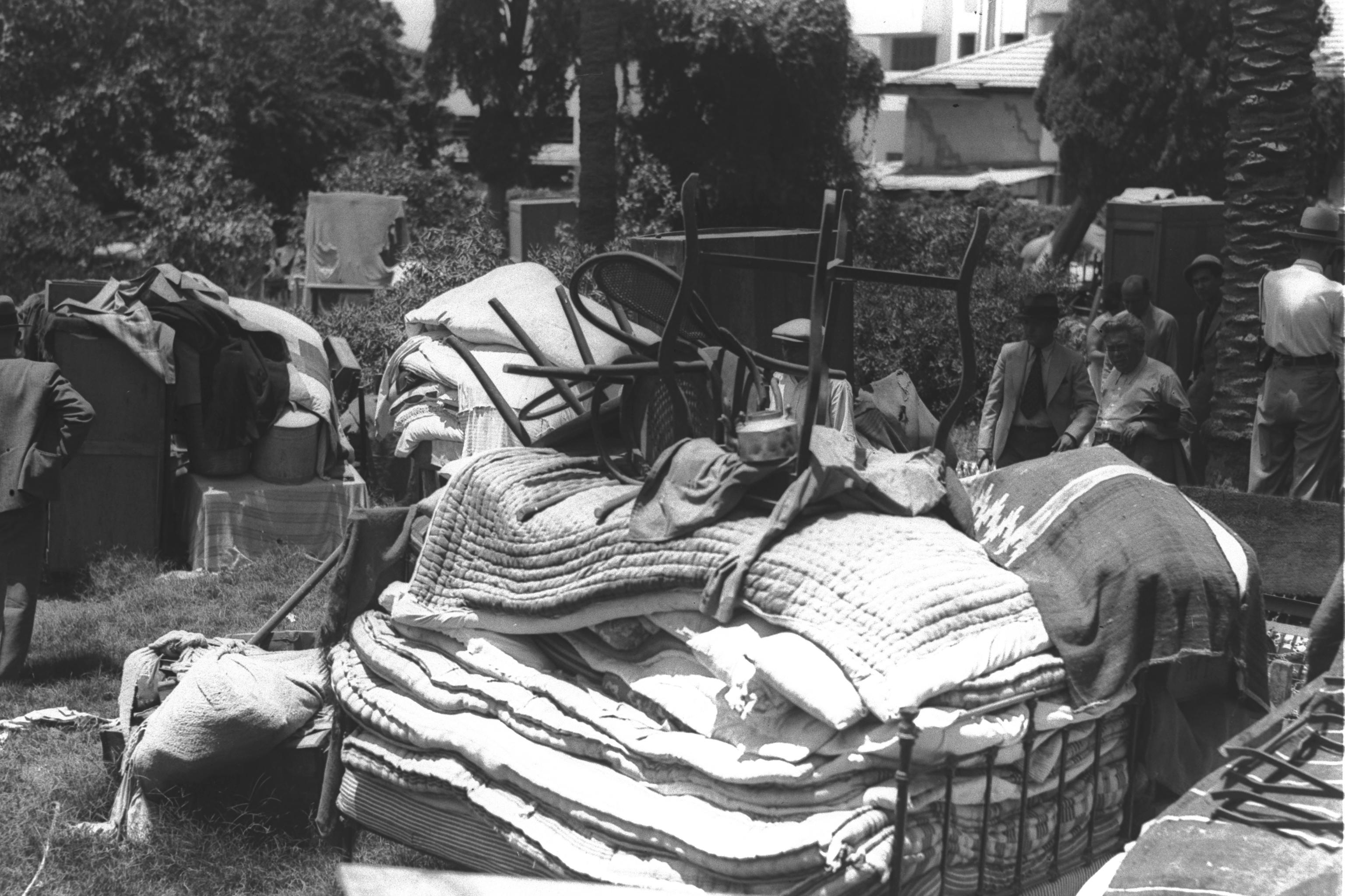 JEWISH FAMILIES EVACUATED FROM THEIR HOMES DESTROYED BY JAFFA ARABS DURING THE OUTBREAK STORING THEIR BEDS AND MATTRESSES IN A PUBLIC PARC IN TEL AVIV. משפחות יהודיות מפונות מבתיהם שנהרסו בידי פורעים ערבים מיפו, מאחסנות את ציוד ביתם בתוך גן ציבורי בתל אביב.